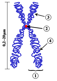 Scheme of a Chromosome. (1) Chromatid. One of the two identical parts of the chromosome after S phase. (2) Centromere. The point where the two chromatids touch, and where the microtubules attach. (3) Short arm (4) Long arm. In accordance with the display rules in Cytogenetics, the short arm is on top.